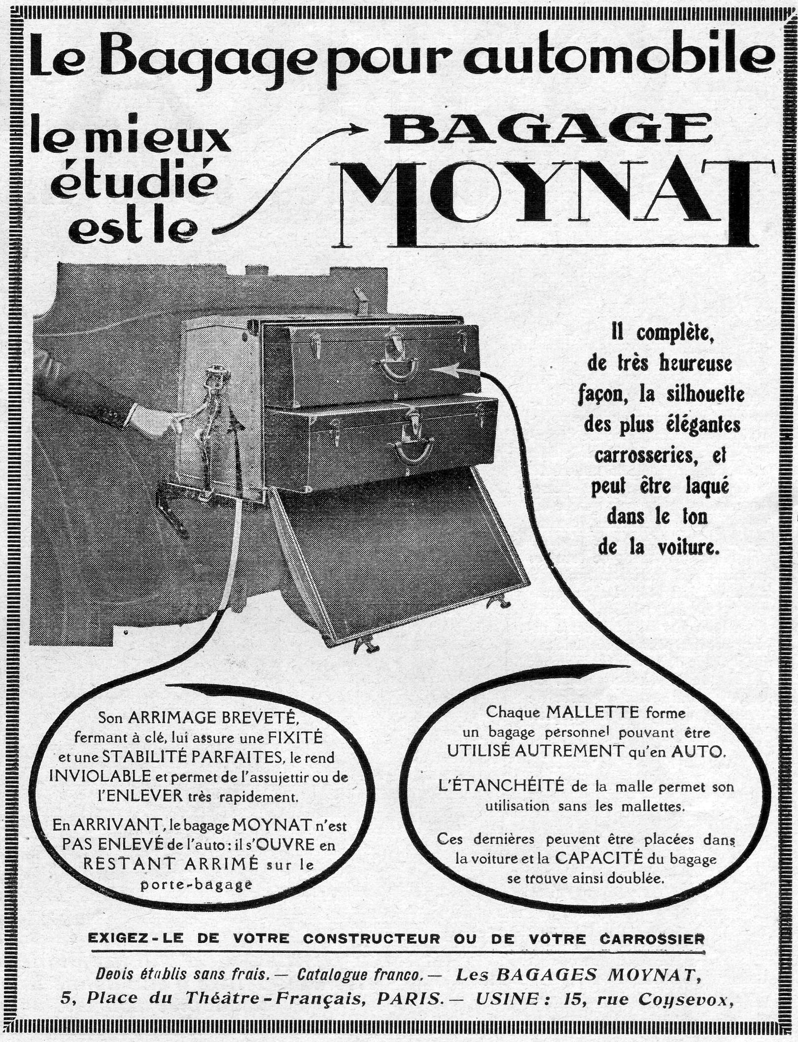 Moynat advertisement of 1924